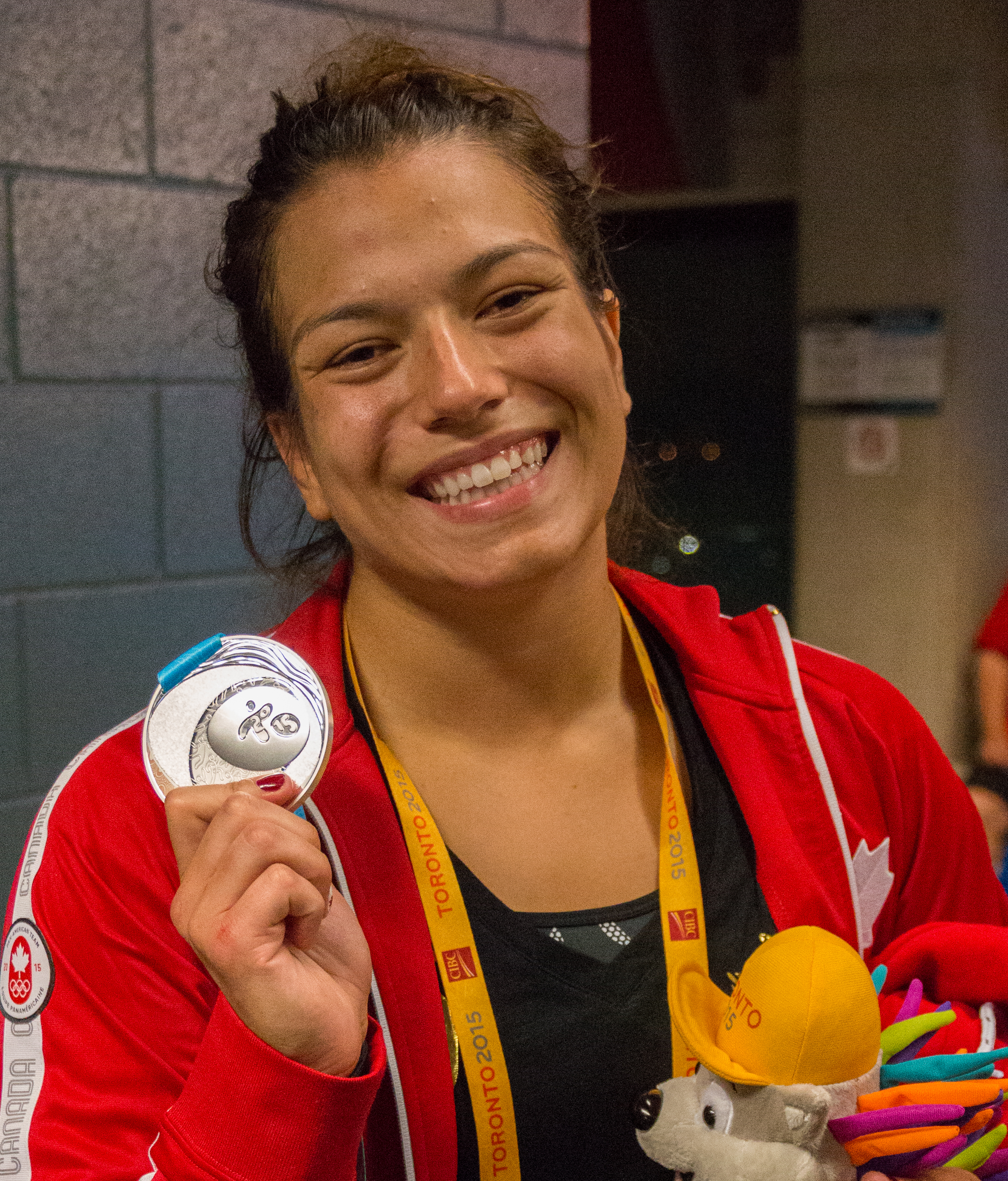 Justina Di Stasio at 2015 Pan Am Games showing her silver medal in women's freestyle wrestling